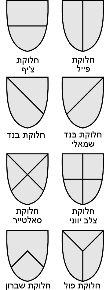 Divisions of the field HE